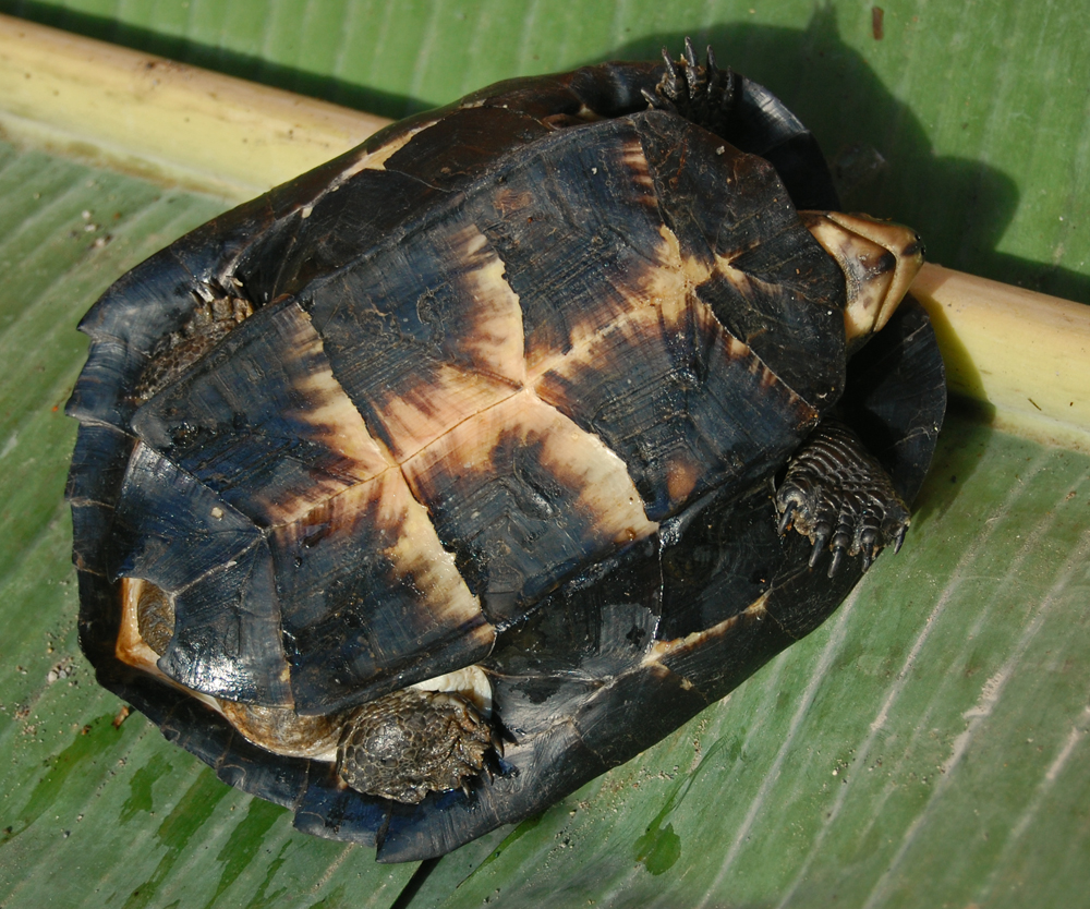 Siebenrockiella crassicollis, carapace length 155mm. Ventral view. From Java, Indonesia.